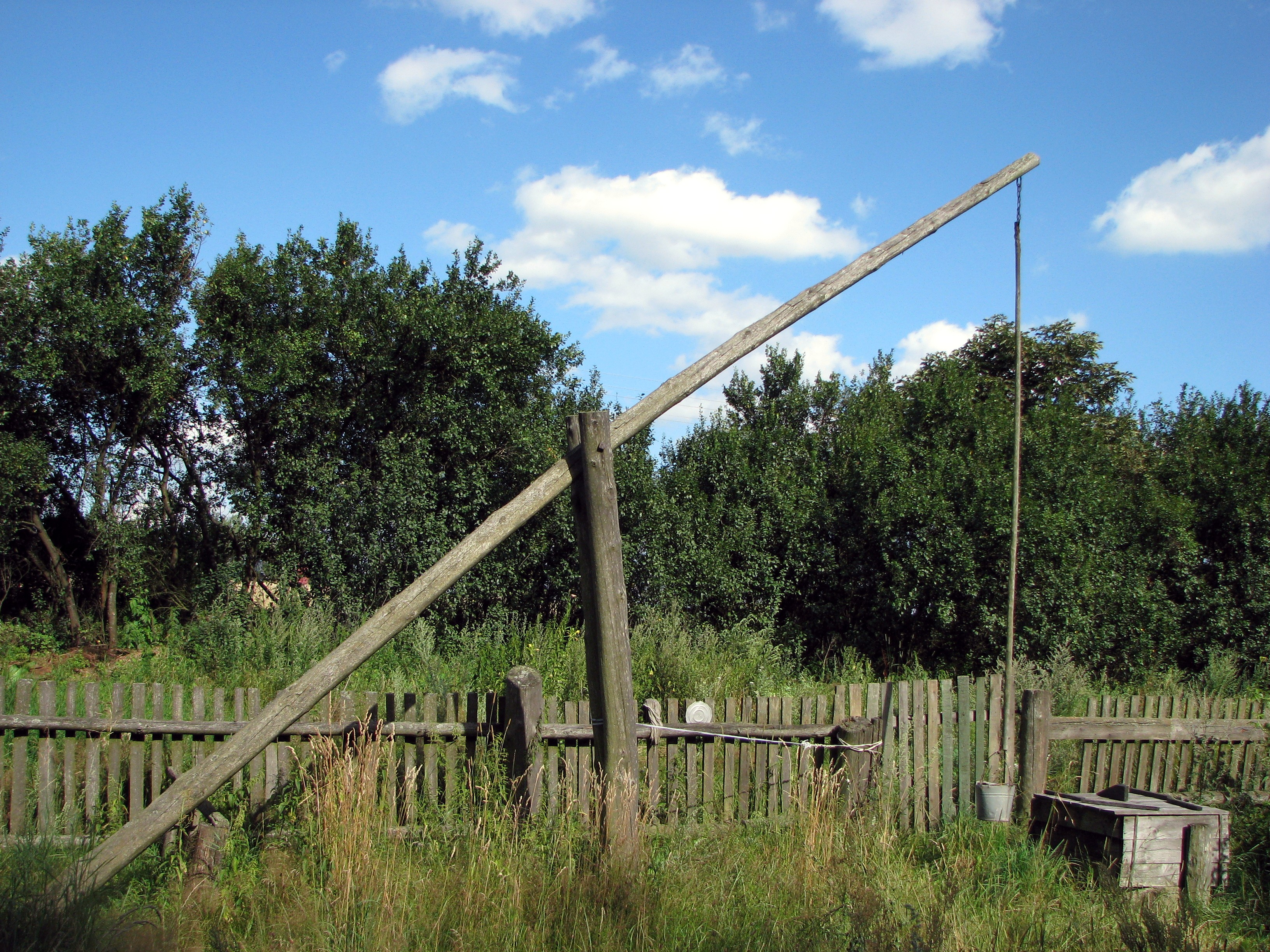 Water well with shadoof. Still in use in 2007. Biely Liasok, Belarus.